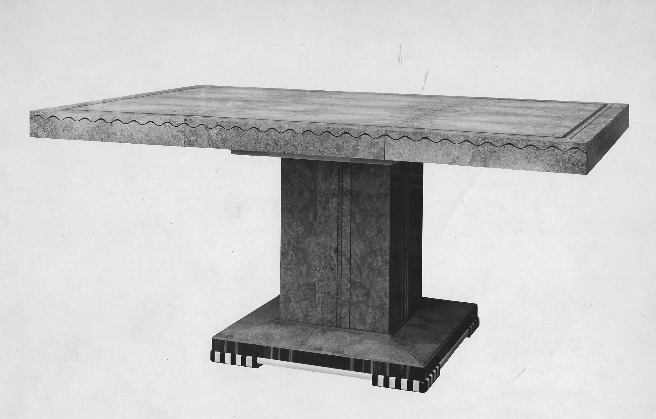 Photograph of a table designed by CA Richter and manufactured by Bath Cabinet Makers